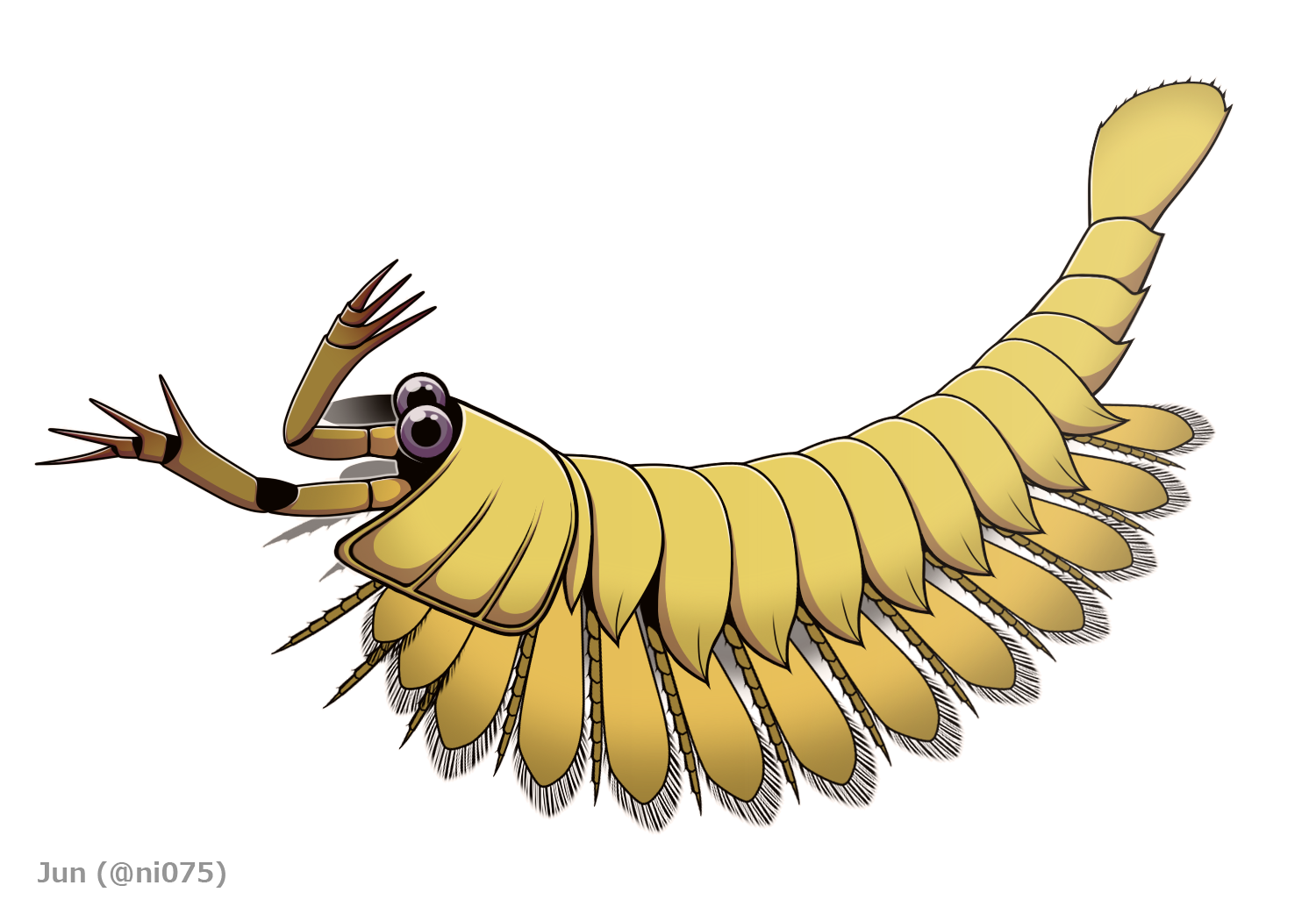 Reconstruction of Yohoia tenuis, a cambrian megacheiran arthropod.